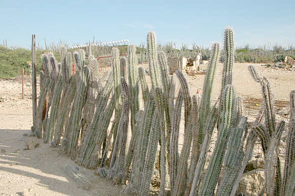 A cactus fence, Dutch Antilles.